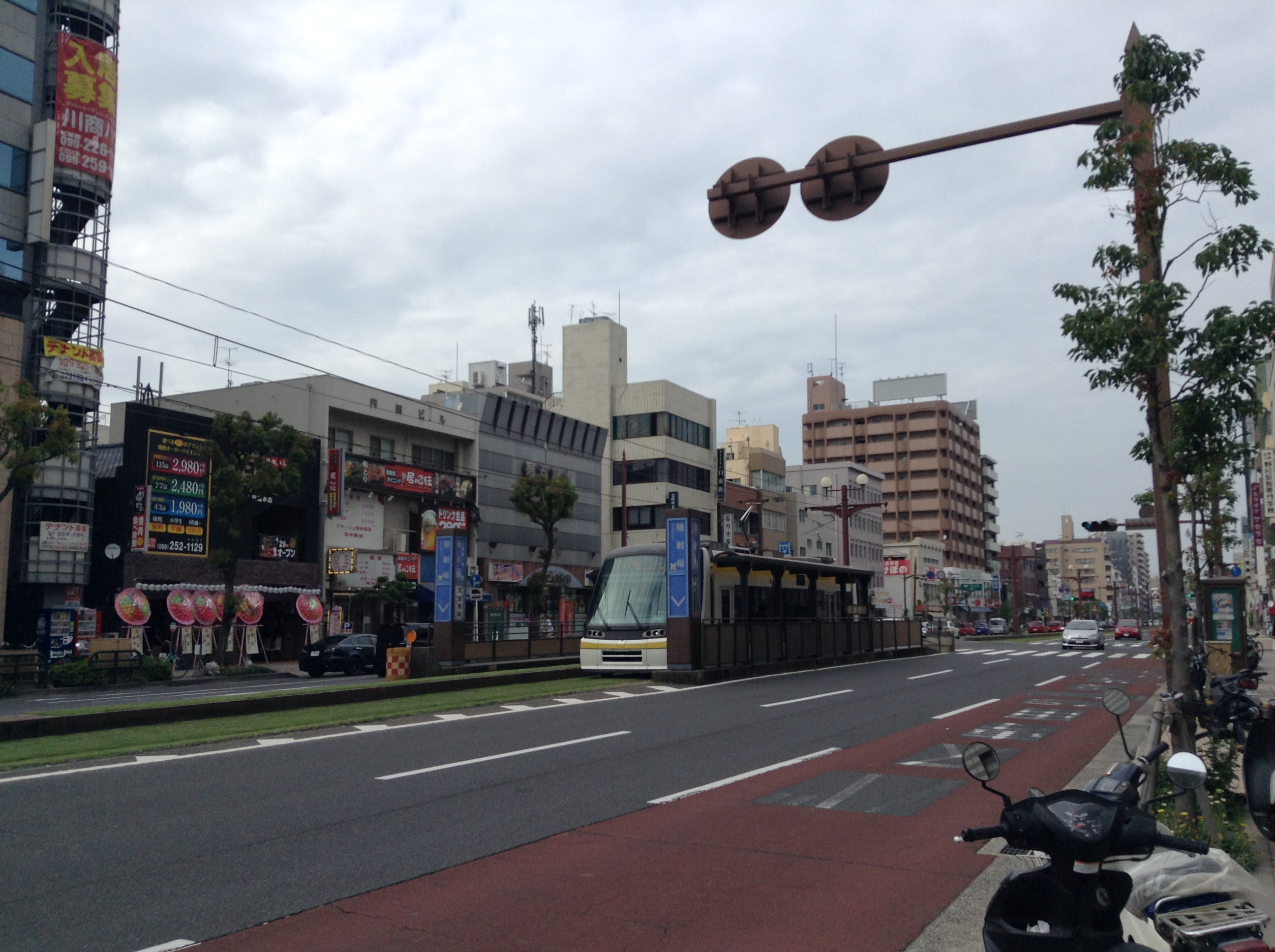 Kagoshima City Tram Kishaba-station.